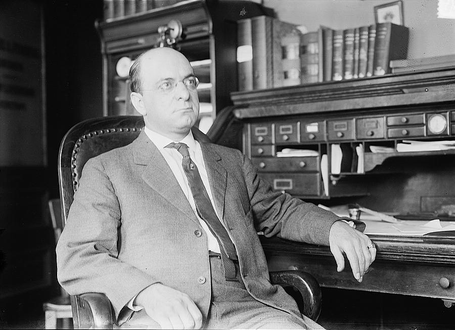 Coroner I.L. Feinberg at the coroner's office in the Criminal Court Building, at Centre And Franklin Streets. Bain News Service,, publisher. Coroner Israel Feinberg - N.Y. [between ca. 1910 and ca. 1915] 1 negative : glass ; 5 x 7 in. or smaller. Notes: Title from unverified data provided by the Bain News Service on the negatives or caption cards. Forms part of: George Grantham Bain Collection (Library of Congress). Format: Glass negatives. Repository: Library of Congress, Prints and Photographs Division, Washington, D.C. 20540 USA, General information about the Bain Collection is available at Persistent URL: Call Number: LC-B2- 2742-8